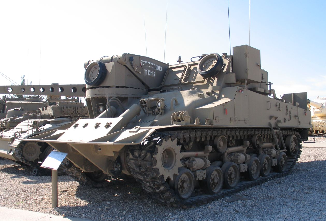 Description: Israeli TrailBlazer ARV in Yad la-Shiryon Museum, Israel. 2005. Source: Photo by me, User:Bukvoed